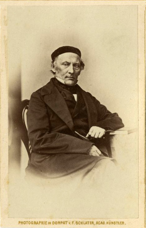 Pastor August Ludwig Immanuil Körber